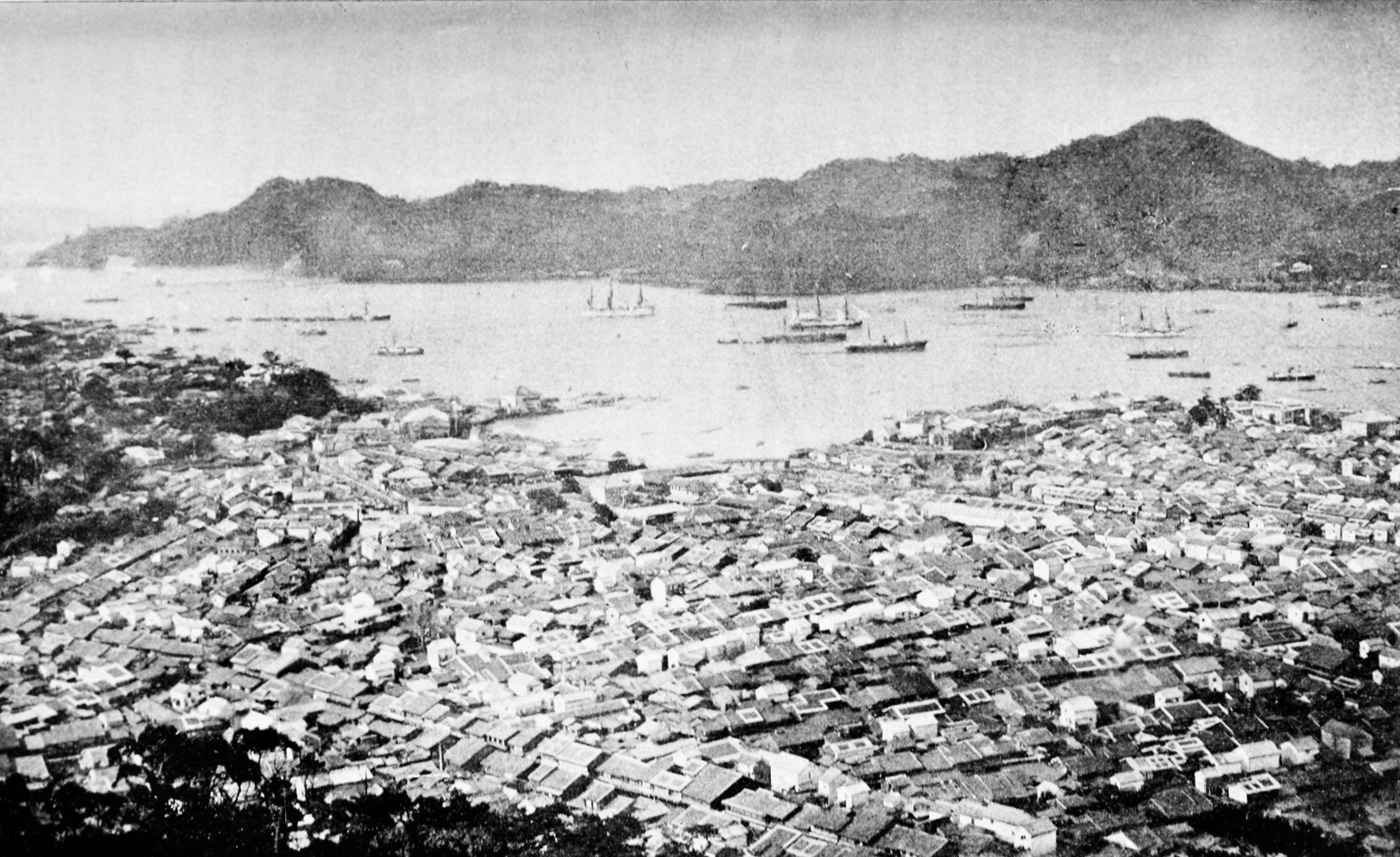 Harbor of Nagasaki circa 1890